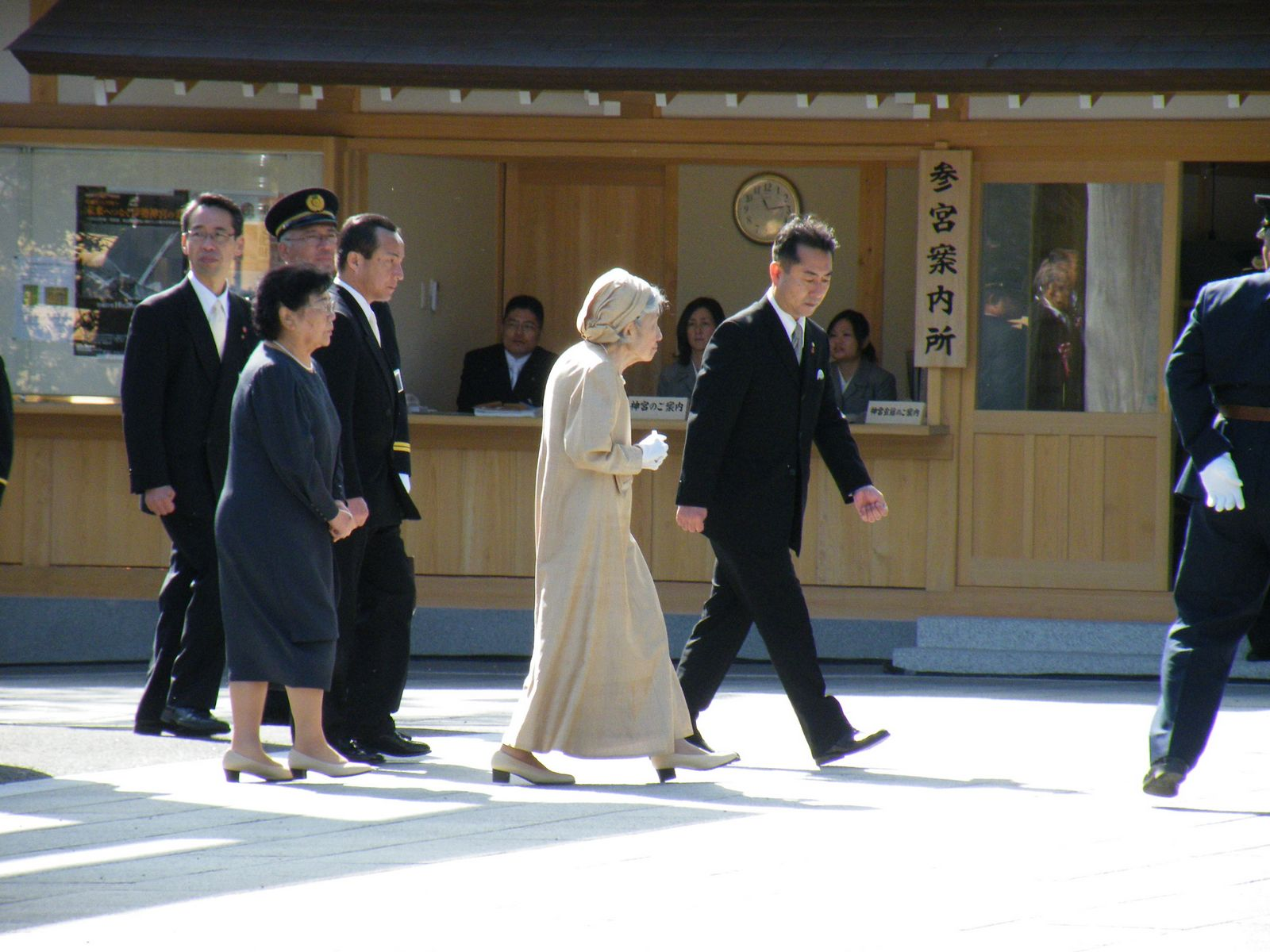 Atsuko Ikeda, Most Sacred Priestess of the Ise Shrine, attended the "Ujibashi-watari-hajime-shiki" at the Ise Shrine in Ise City, Mie Prefecture on November 3, 2009.